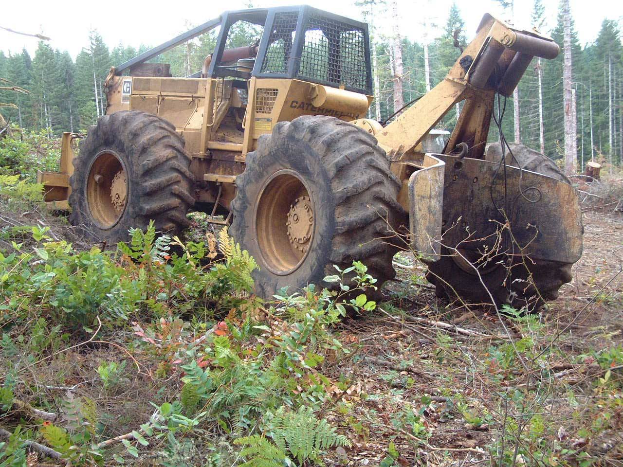 Caterpillar 528 cable log skidder, manufactured about 1975, in Apiary, Oregon, USA